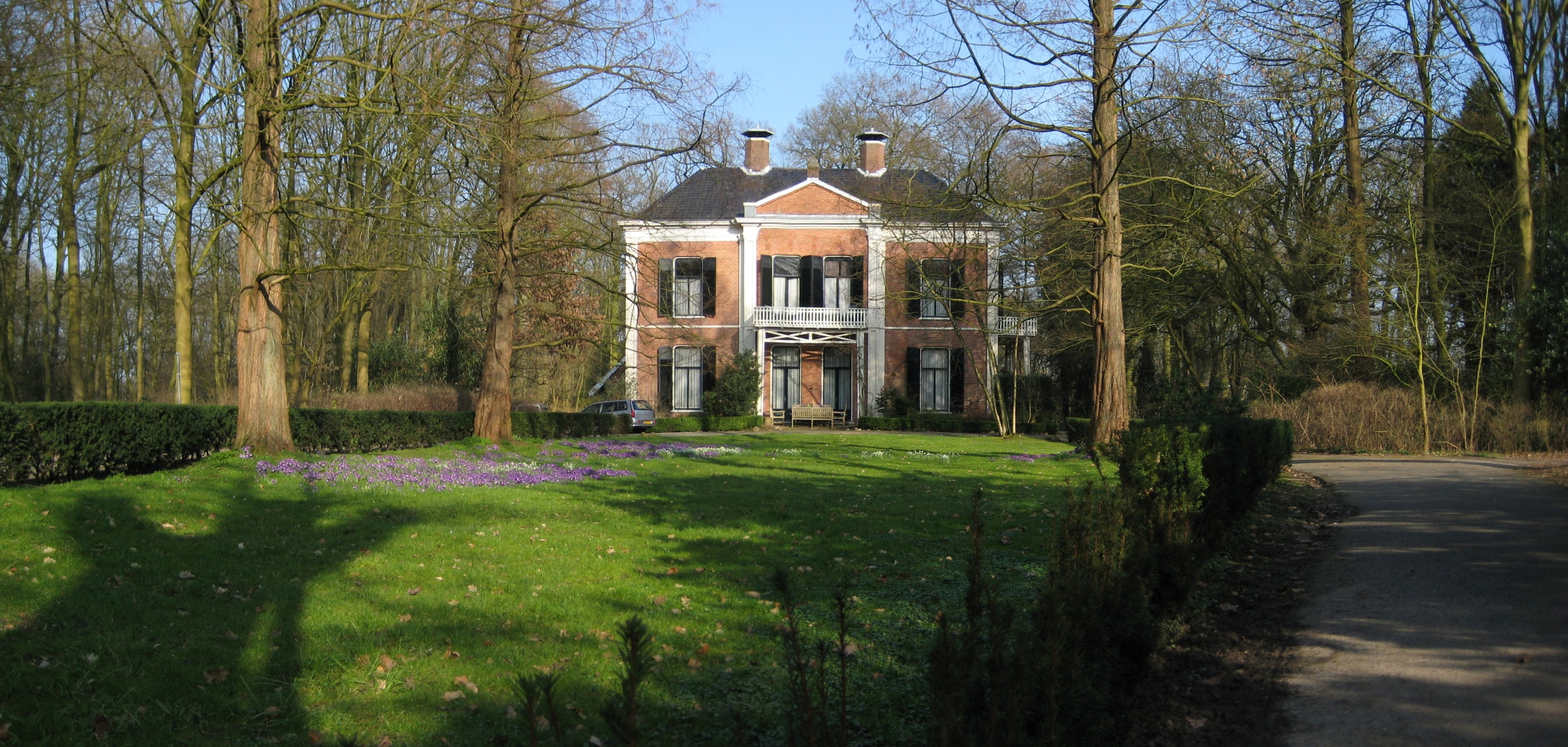 Groenestein in the Dutch city of Groningen.